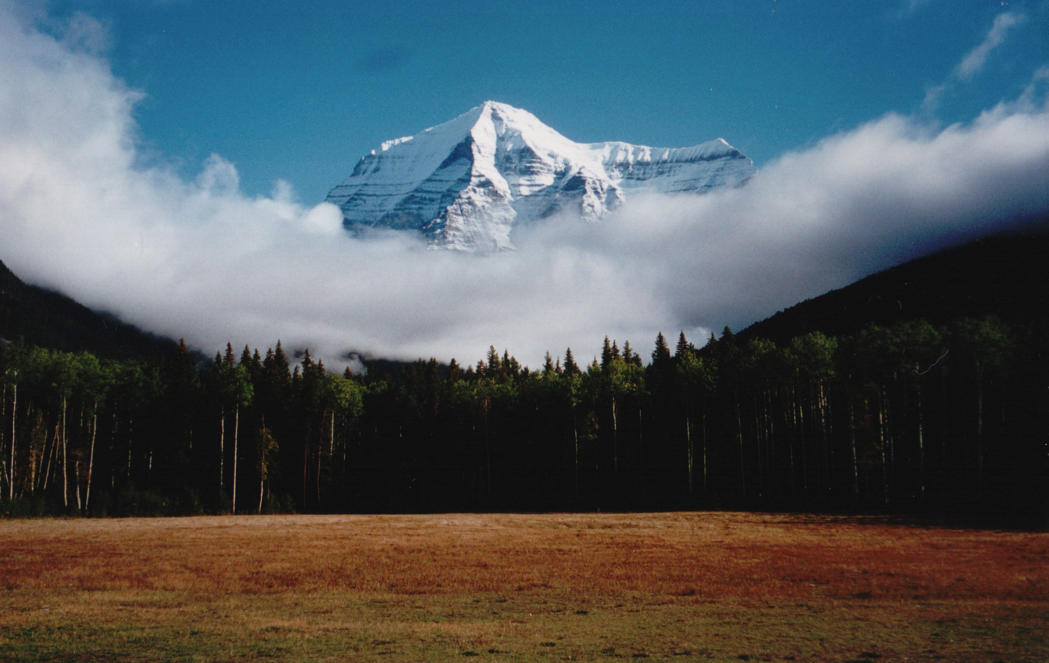 Mount Robson, Mount Robson Provincial Park, British Columbia, Canada.